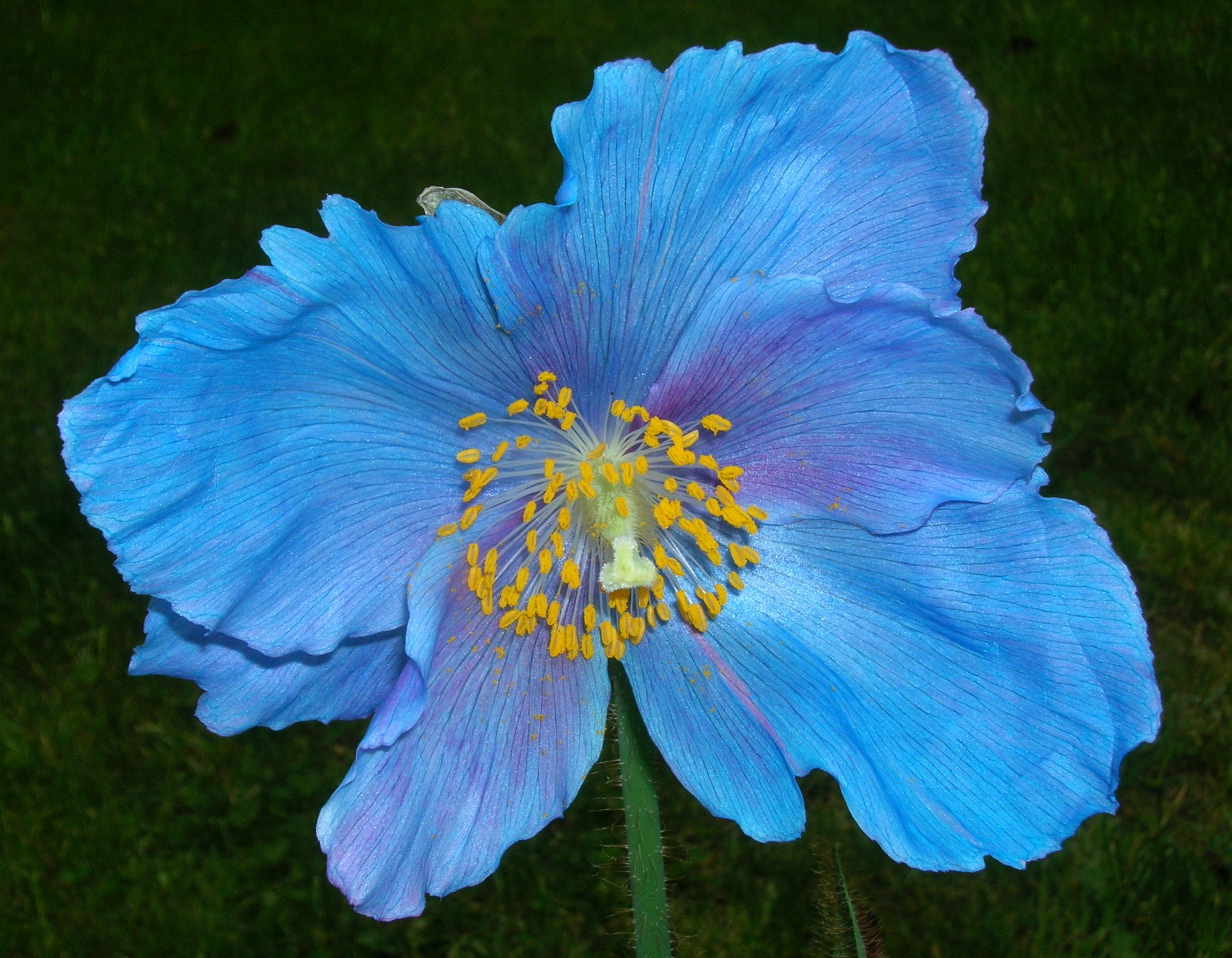 Meconopsis x sheldonii 'Lingholm'